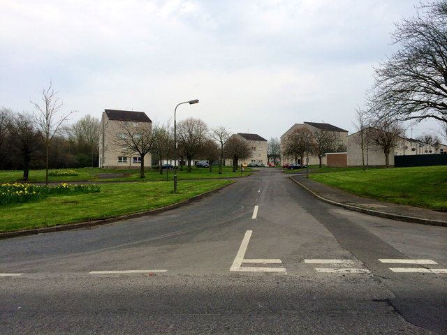 One of the housing estates in the Legahory area of Craigavon, the New Town built in the late 1960s and early 1970s in north County Armagh. There were once more of these flats, although some were demolished in the 2000s, often due to dereliction as a result of anti-social behaviour. This estate was built in 1972.